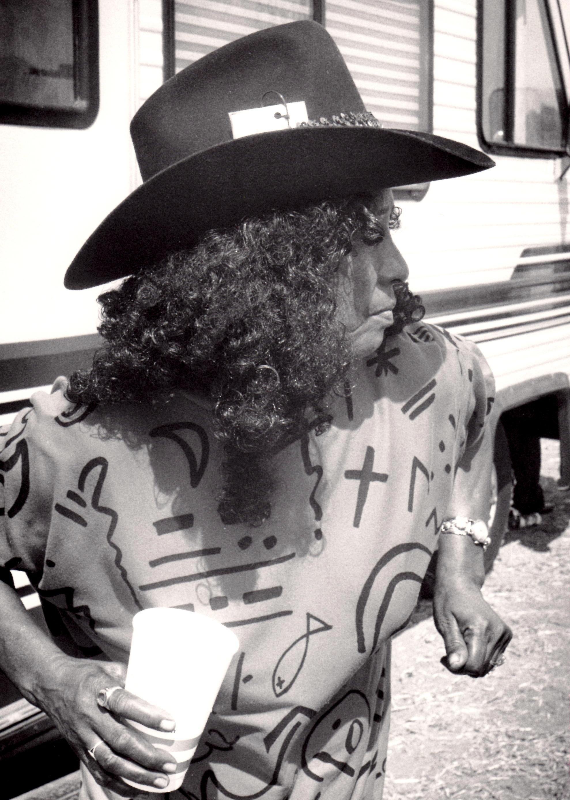 Blues musician Jessie Mae Hemphill dancing outside her bus at a blues concert in the Mississippi Delta, mid-1980s.